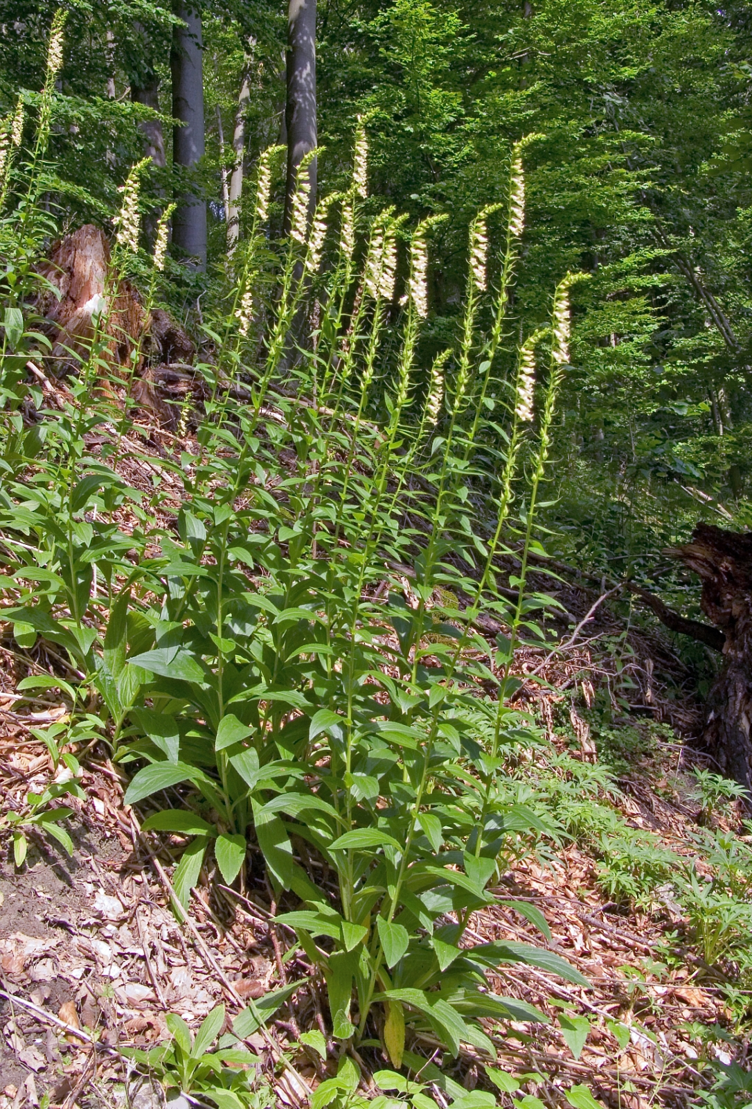 Digitalis lutea, Hohenlohe, Germany